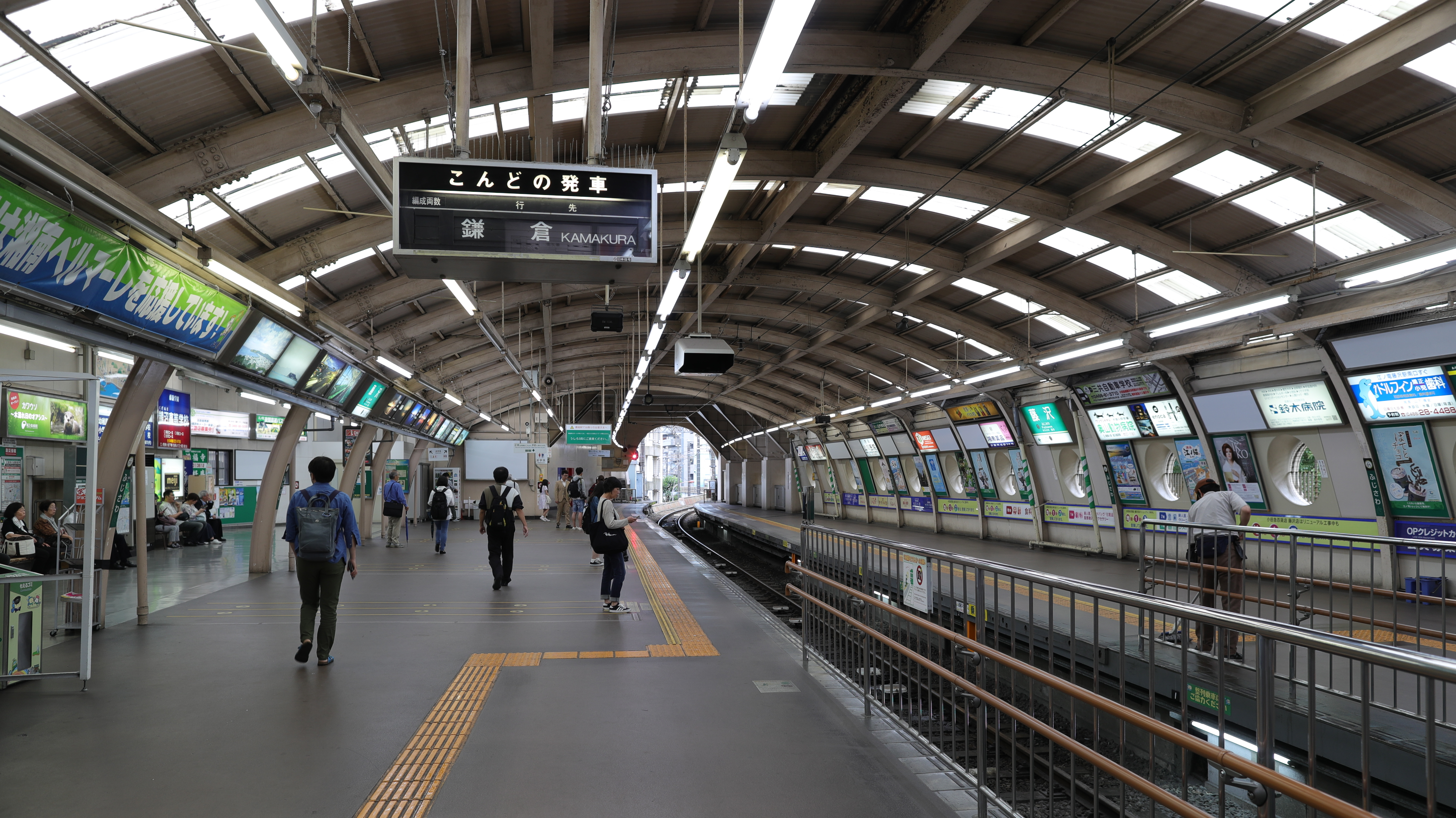 Fujisawa station, Enoshima Electric Railway in Kanagawa, Japan.